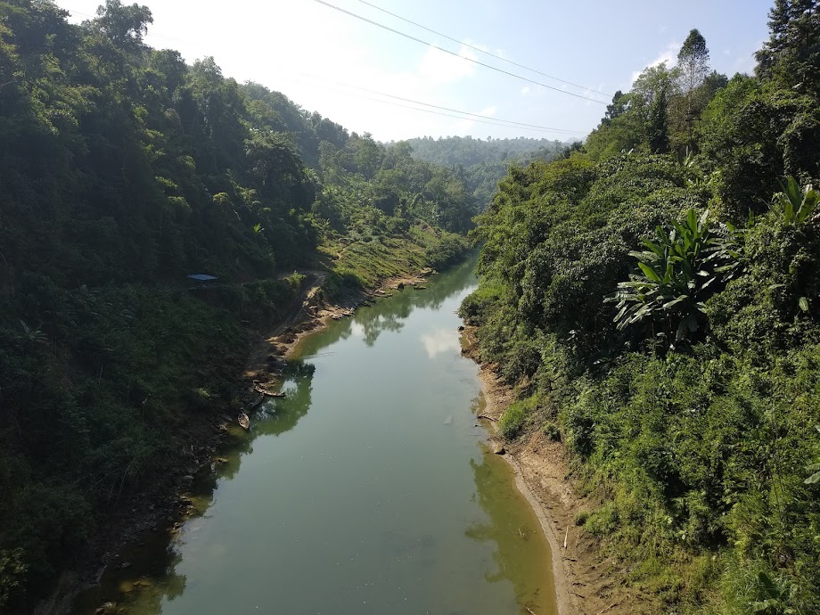 Tlawng river on the way to Lengpui Airport